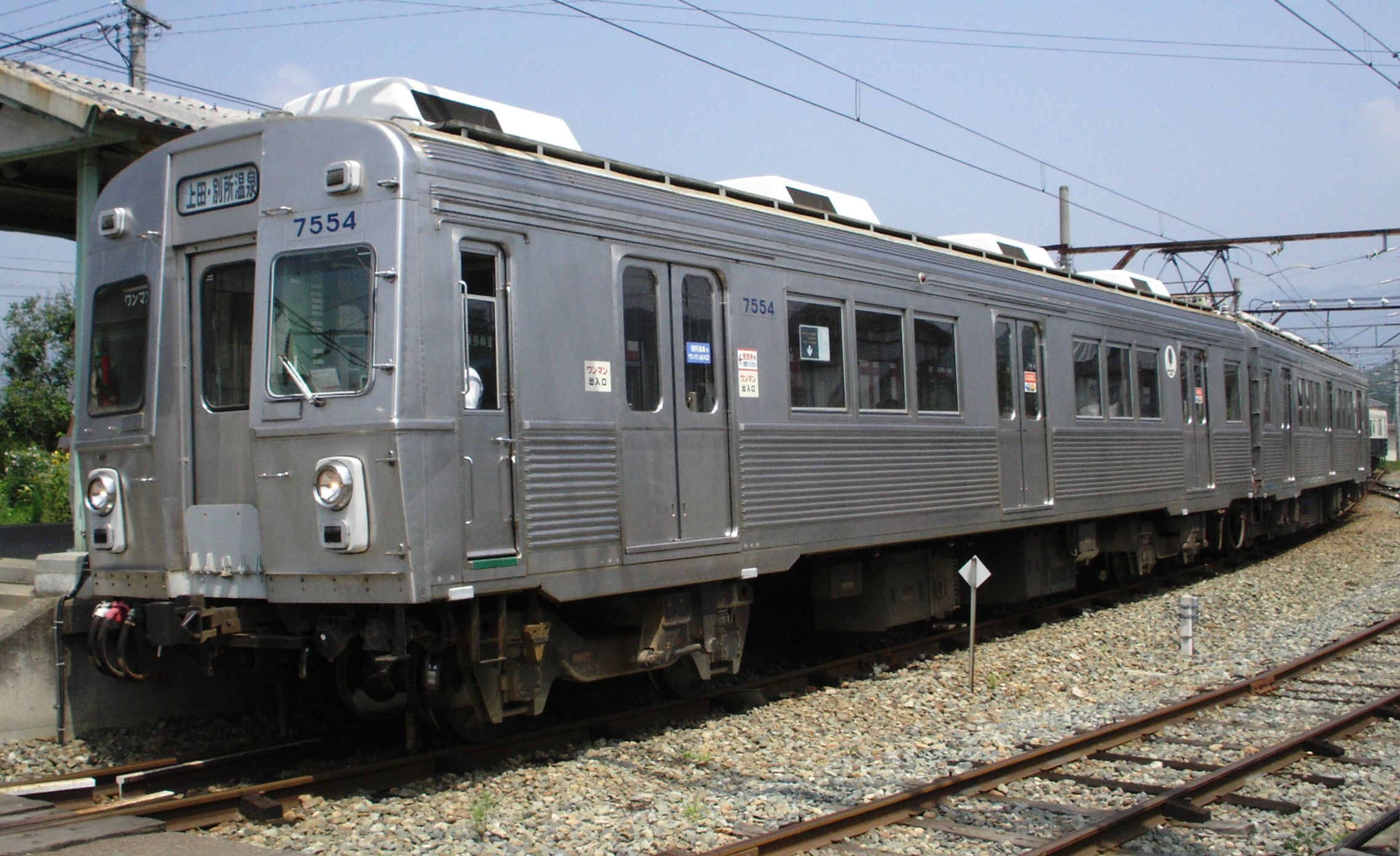 Ueda Kotsu Moha 7200 series EMU at Shimonogo Station